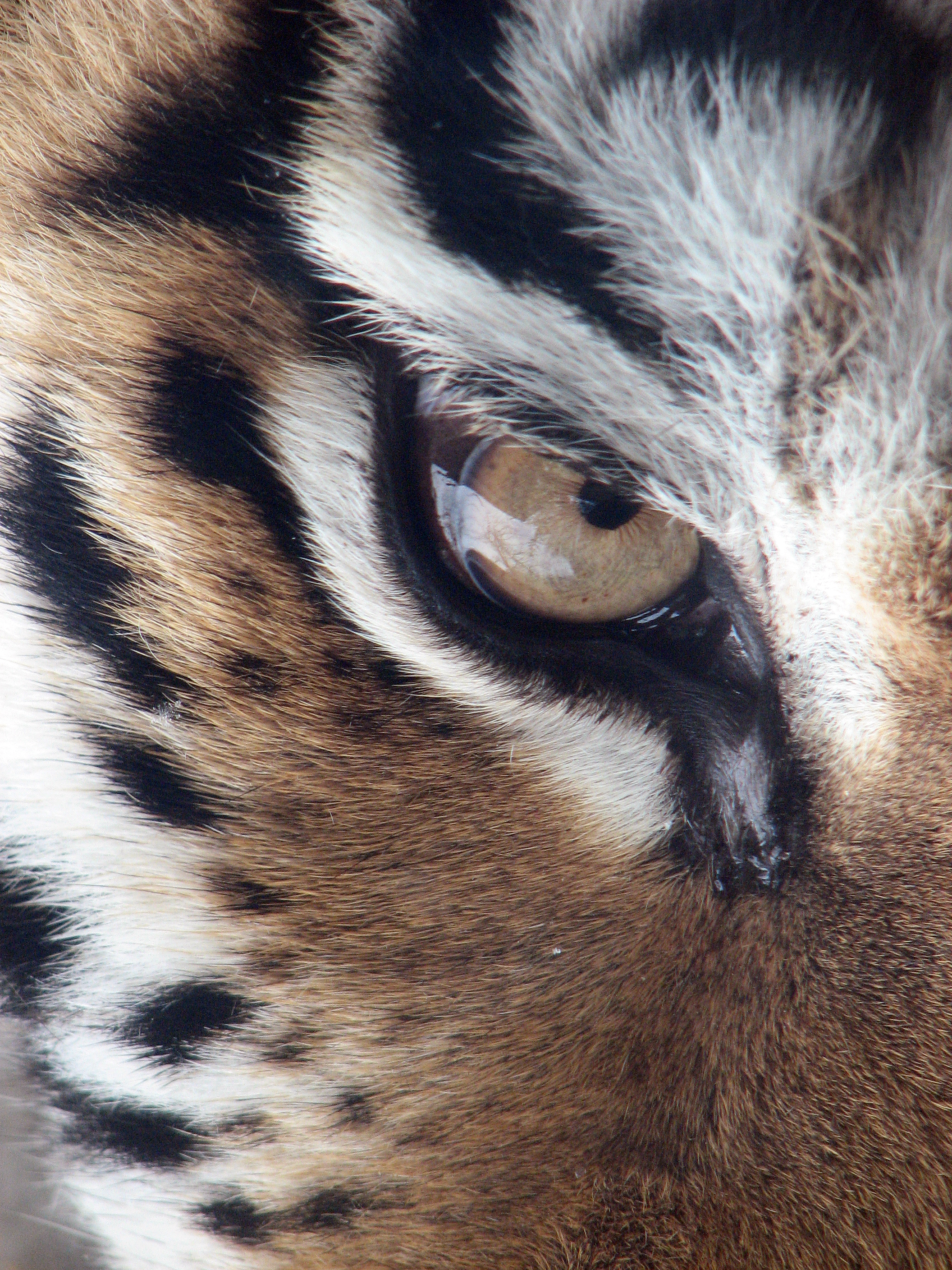 A photograph of the right eye of an Amur Tigeren (Panthera tigris altaica en ). Photo taken at the Pittsburgh Zoo.